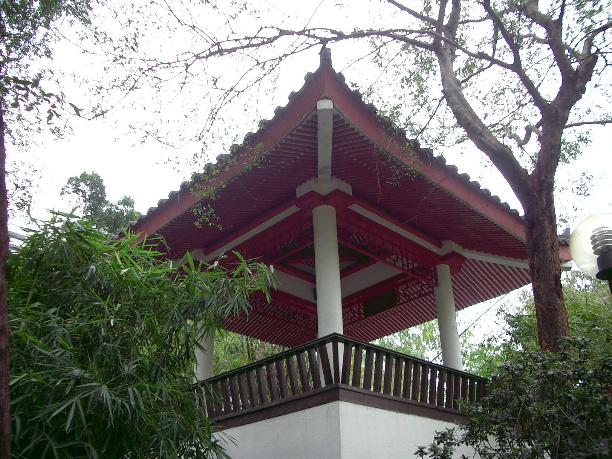 Highest Pavilion at Han Garden, Hong Kong